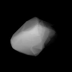 3D convex shape model of 1422 Strömgrenia, computed using light curve inversion techniques. J. Hanuš, J. Ďurech, M. Brož, B. D. Warner (June 2011). "A study of asteroid pole-latitude distribution based on an extended set of shape models derived by the lightcurve inversion method". Astronomy and Astrophysics 530: A134. ISSN 0004-6361. arXiv